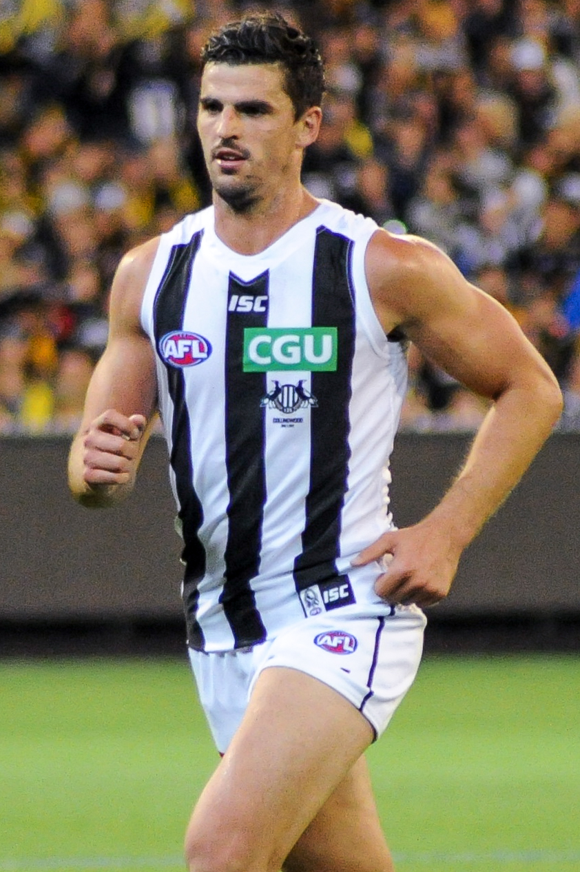 Scott Pendlebury during the AFL round two match between Richmond and Collingwood on 30 March 2017 at the Melbourne Cricket Ground in Melbourne, Victoria.